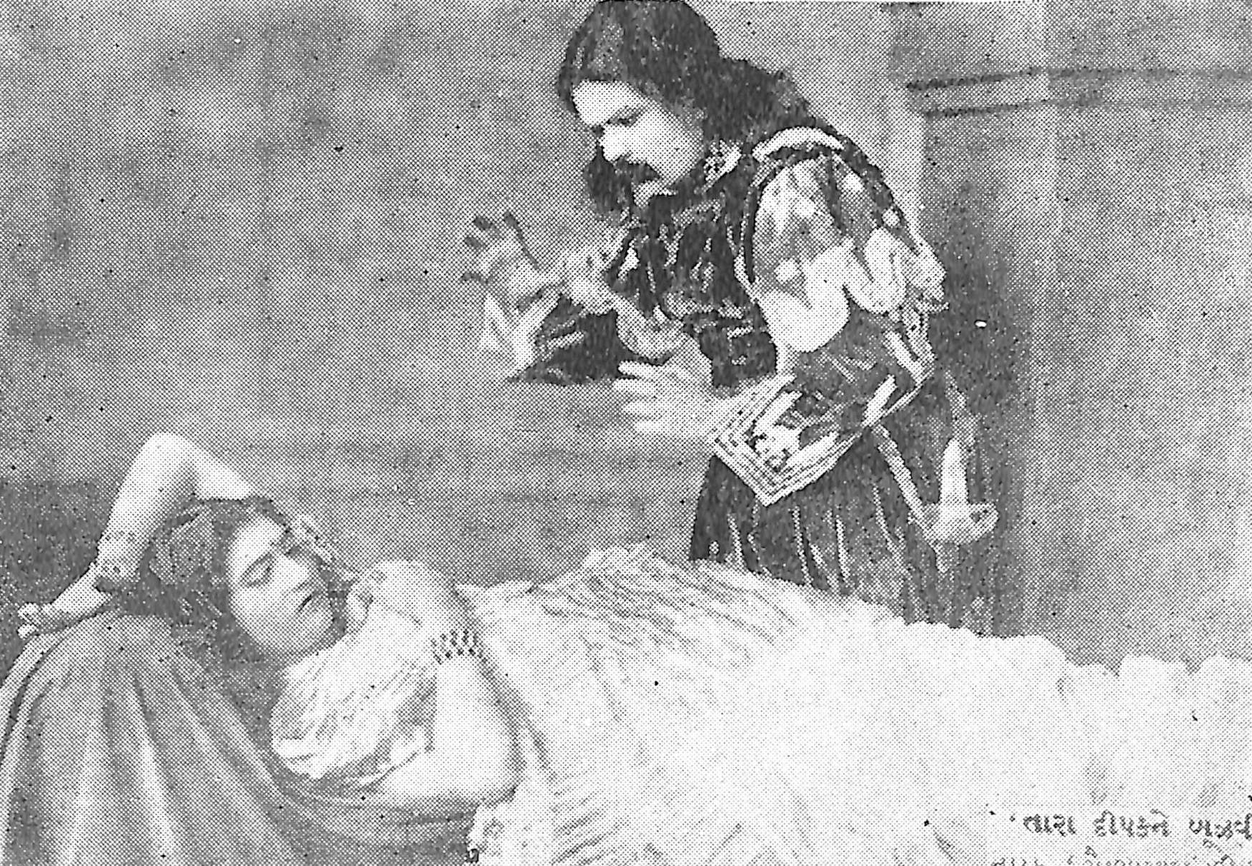 Bapulal Nayak and Jayshankar Bhojak 'Sundari' (sleeping) in a play 'Saubhagya Sundari' in 1901.